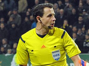 Andreas Ekberg, referee